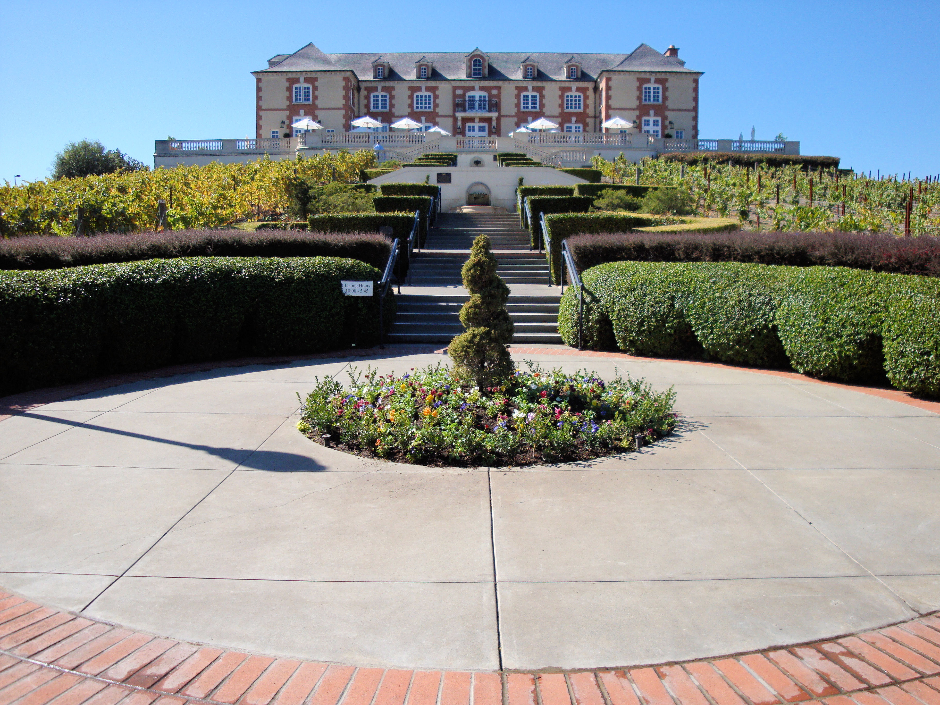 Domaine Carneros Vineyards & Winery, Sonoma Valley, California, USA